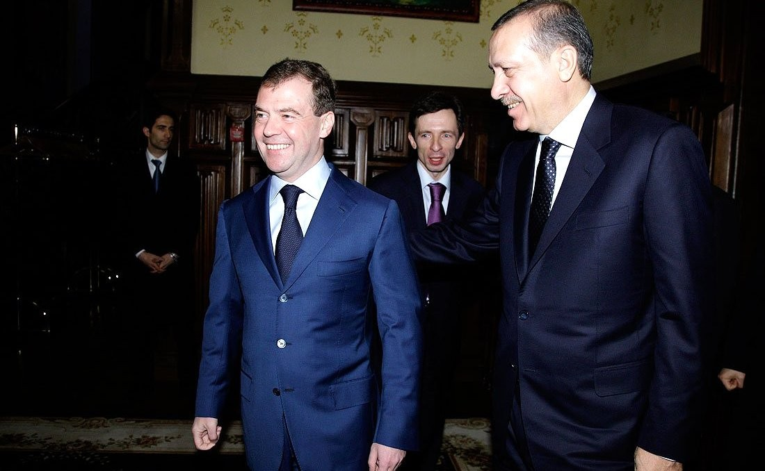 BARVIKHA, MOSCOW REGION. Turkish Prime Minister Recep Tayyip Erdogan with Russian President Dmitry Medvedev.